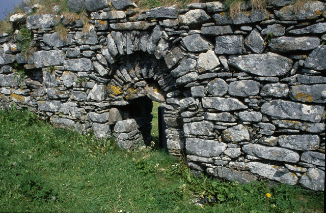 Door at Cille Bharra, Barra, Scotland